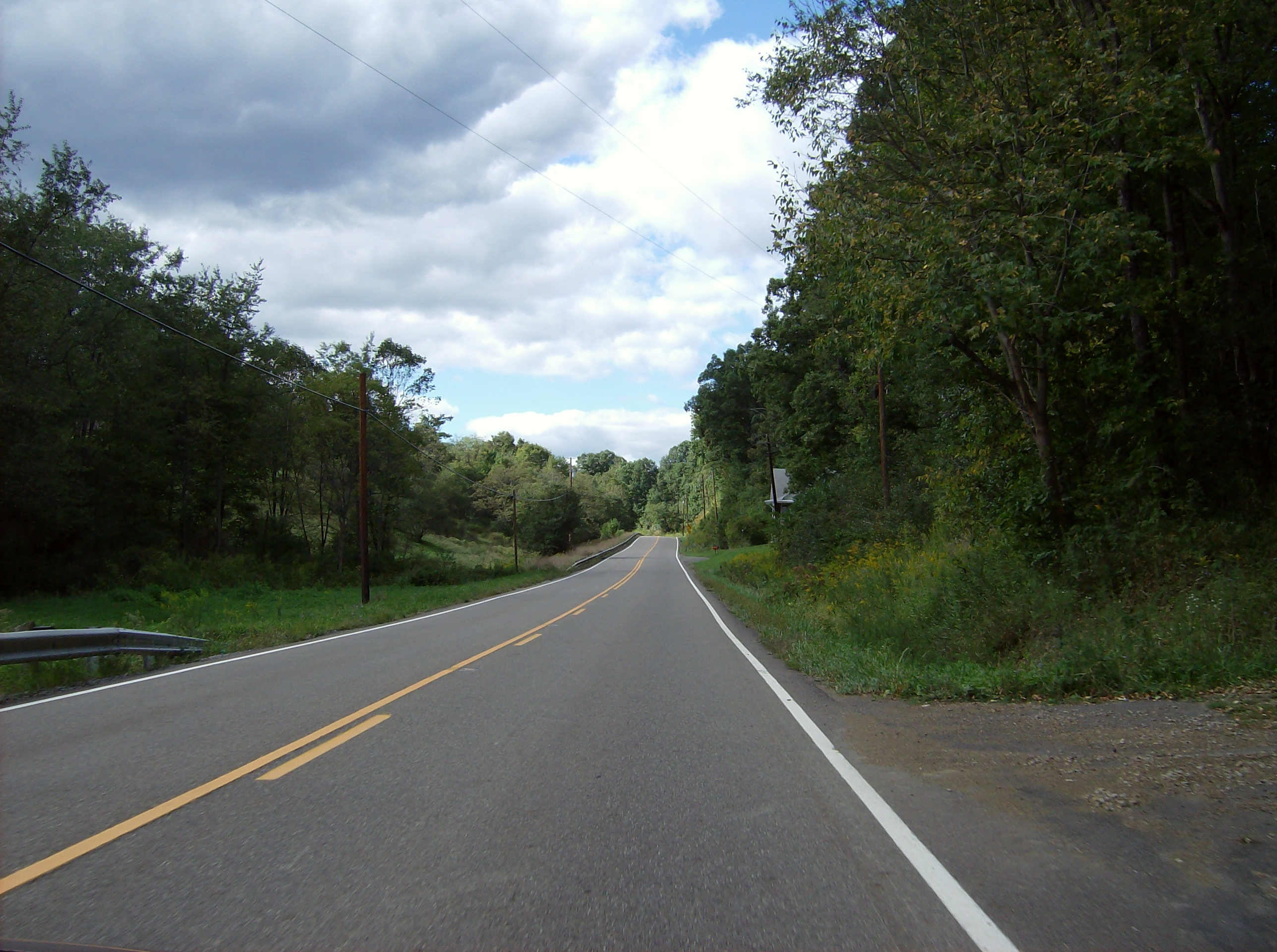 Along westbound State Route 43 in northwestern Loudon Township, Carroll County, Ohio, United States.